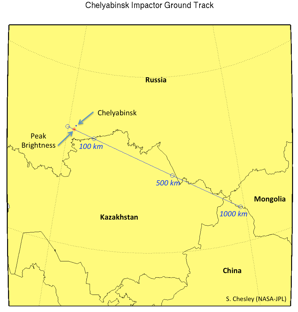 Ground track of Chelyabinsk impactor showing altitude values along the track